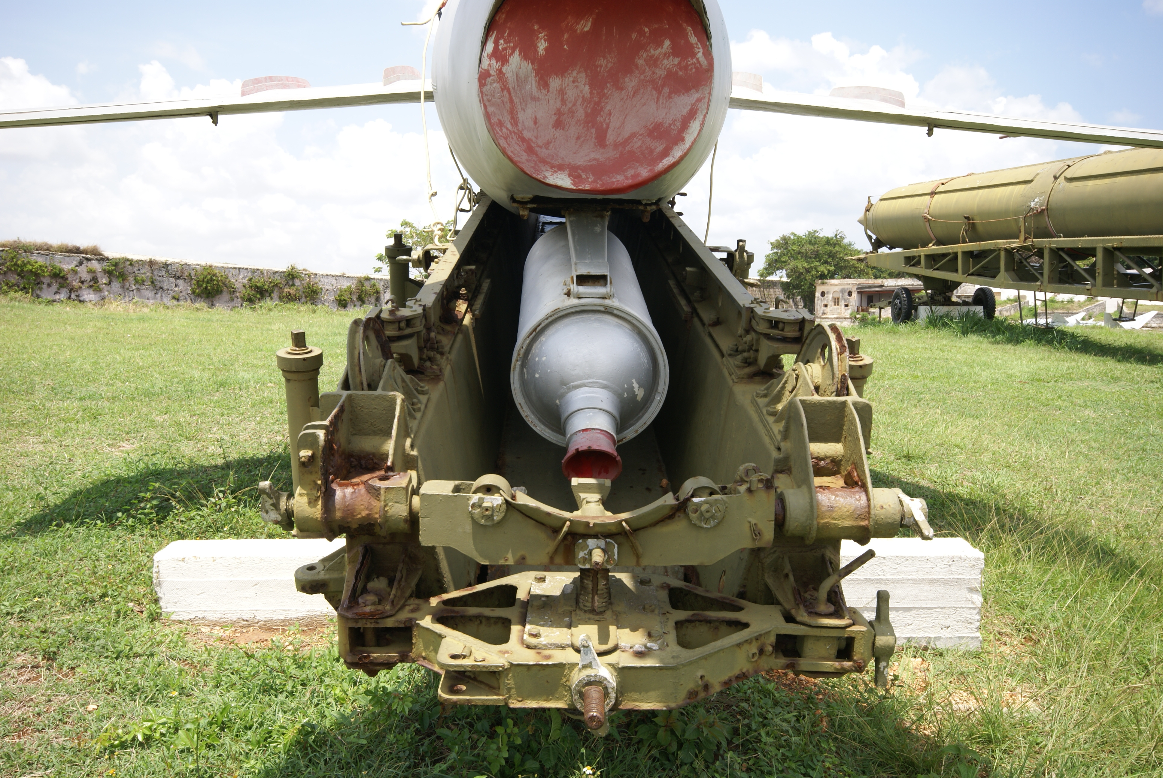 A SPRD-15 Solid Fuel Rocket Booster aided the take-off of the FKR-1, NATO reporting code SSC-2a Salish, KS-7 Missile.